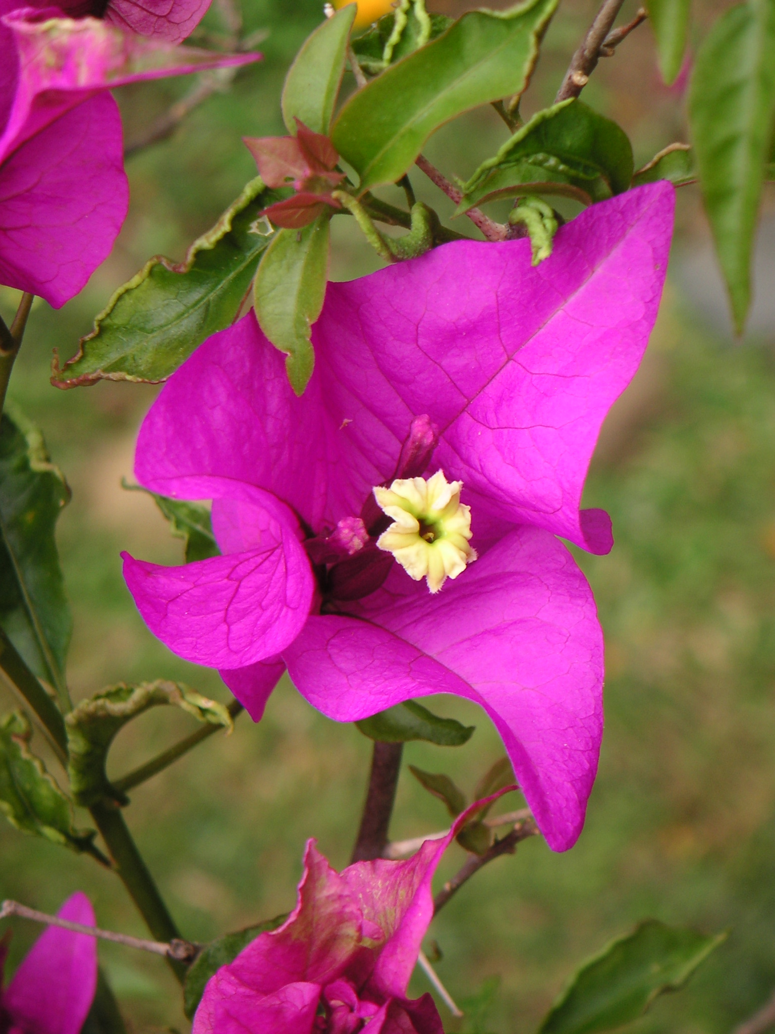 Bougainvillea sp., Cali / Kolumbien